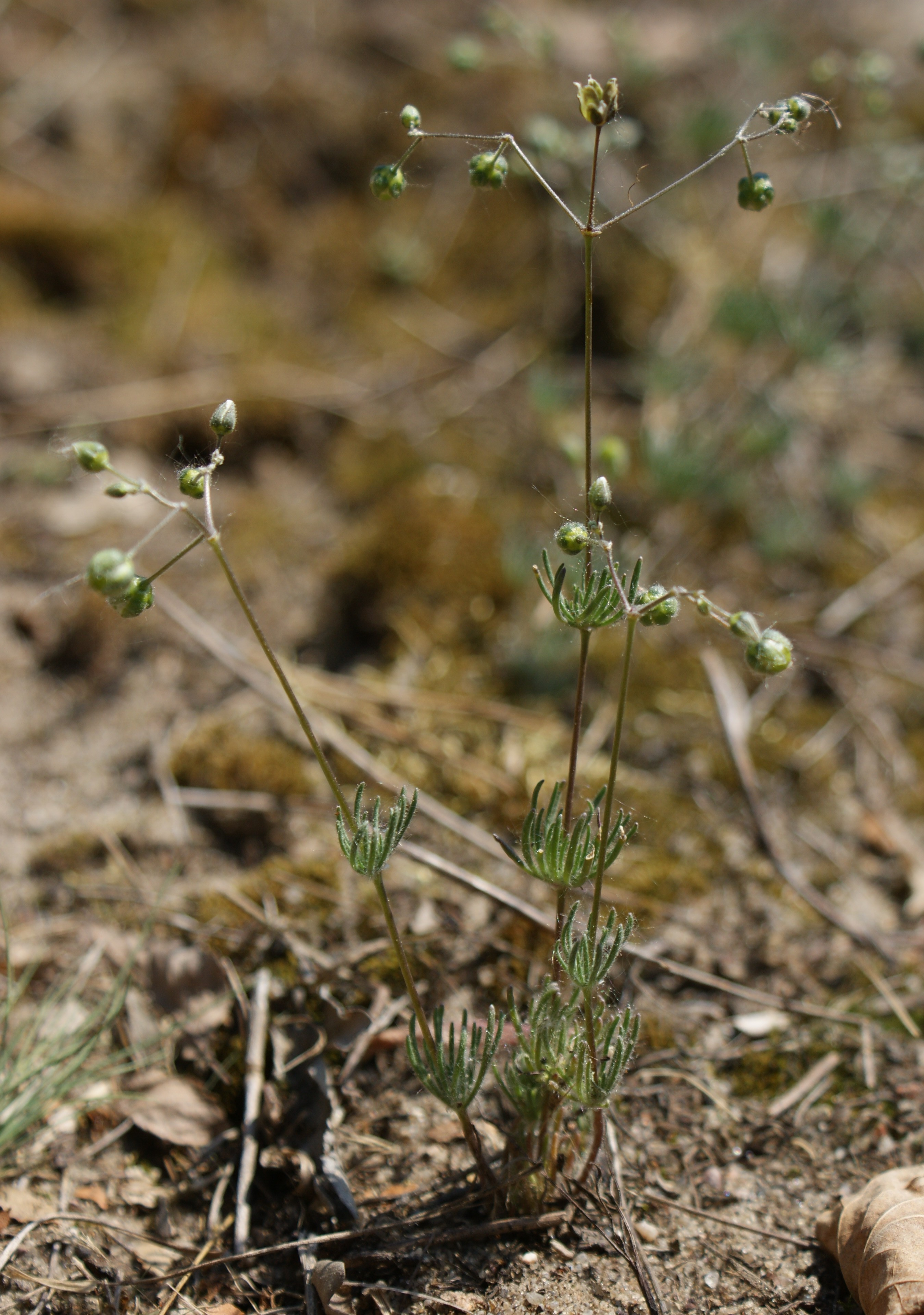 Spergula morisonii (Szczecin, NW POland, sandy hill)